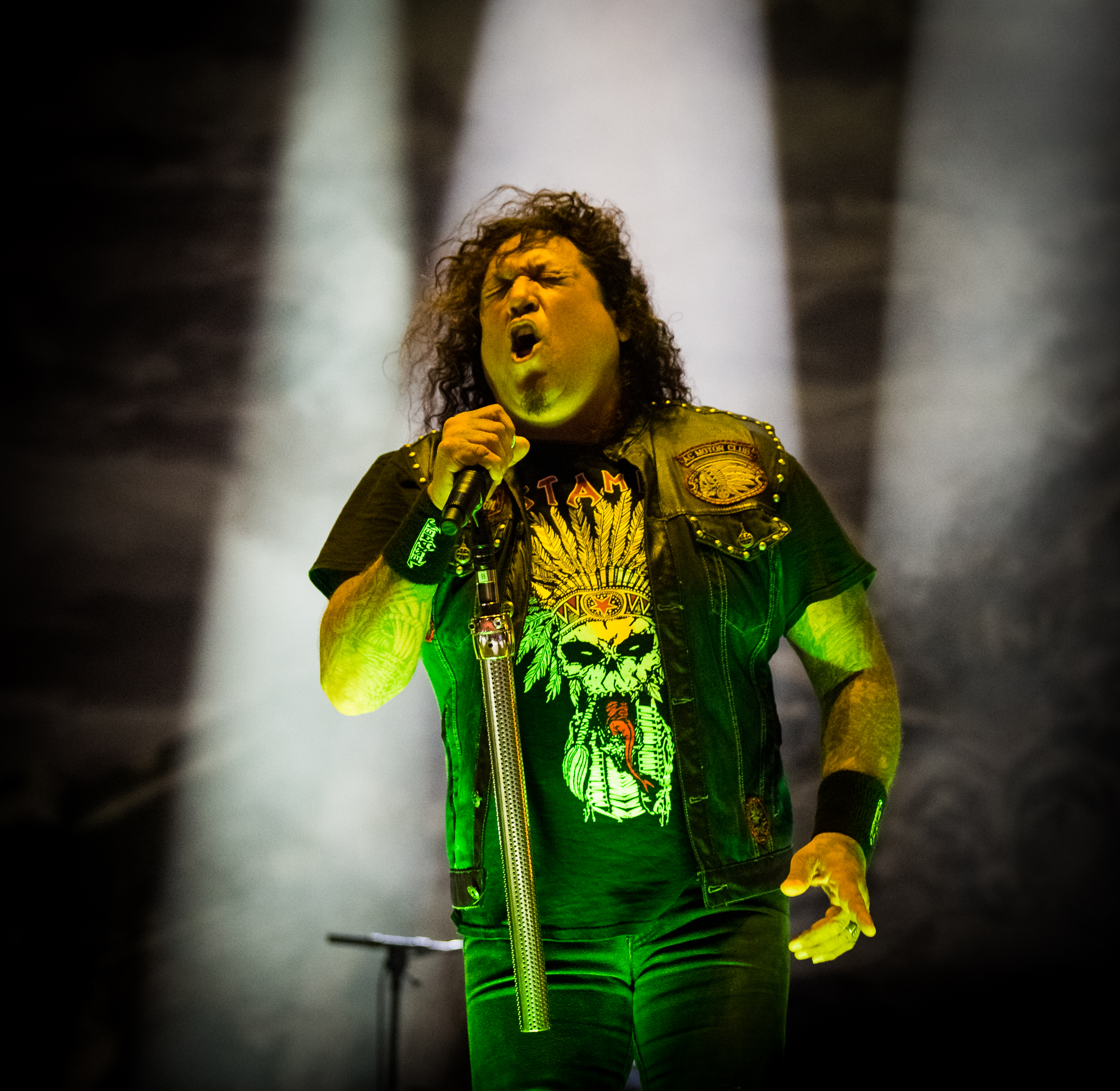 Testament - Wacken Open Air 2016